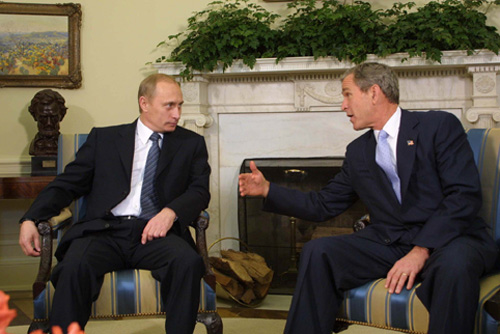 THE WHITE HOUSE, WASHINGTON, D.C. President Vladimir Putin and US President George W. Bush talking in the Oval Office.